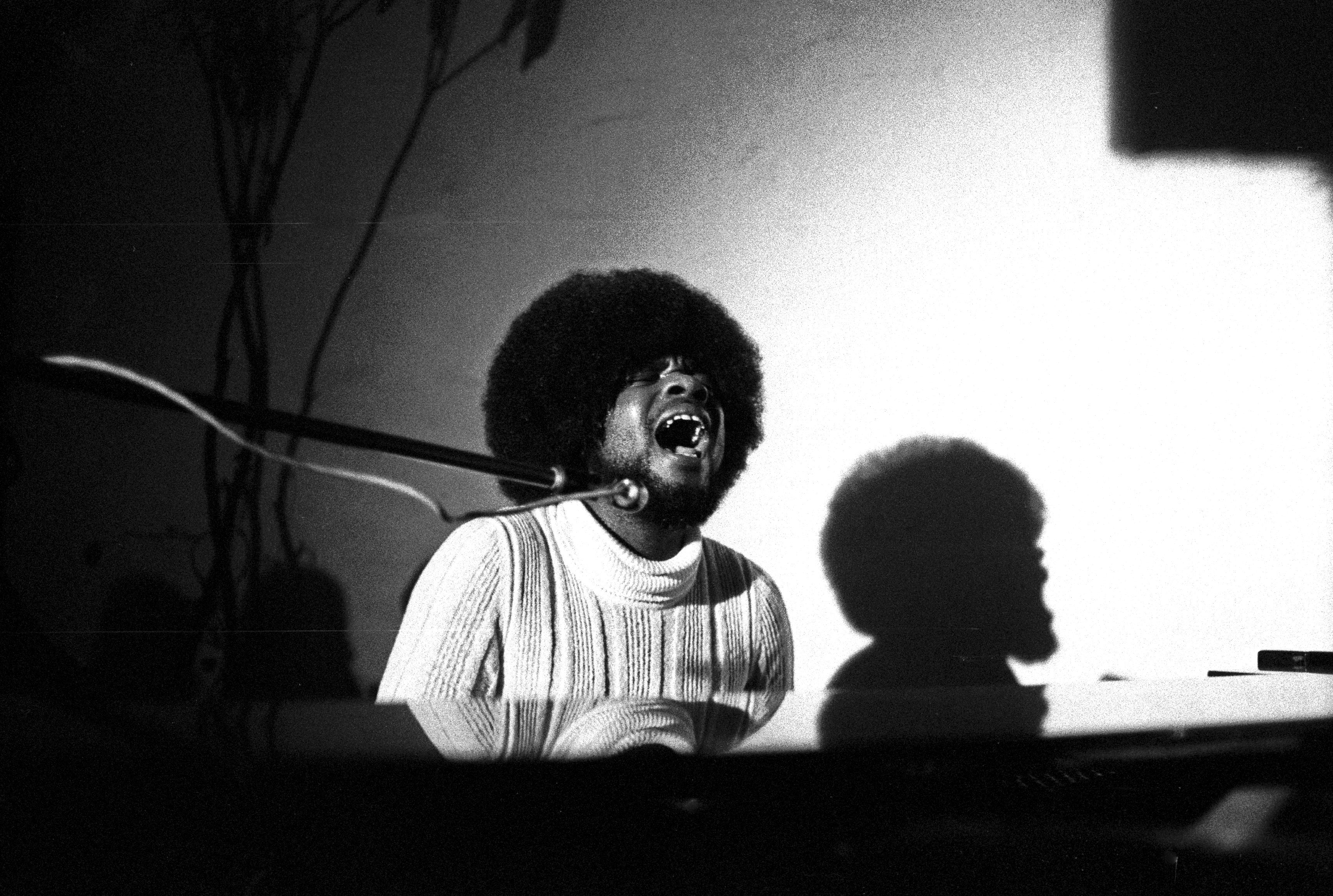 Keyboardist and Rolling Stones sideman Billy Preston in Hanaur 1971